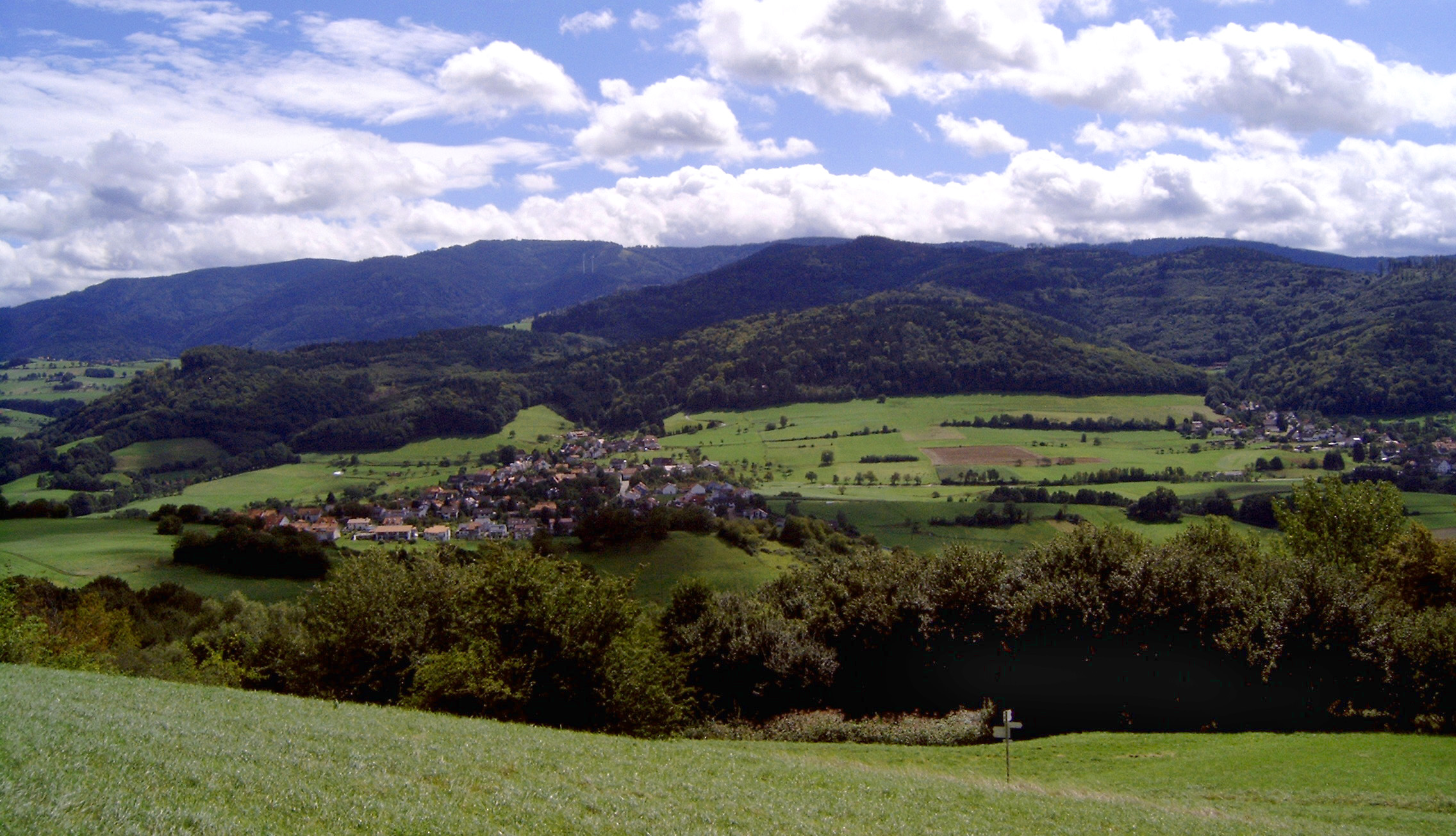 View from Schönberg (upper Englematt) on Wittnau with Schauinsland in the background, right hand Sölden